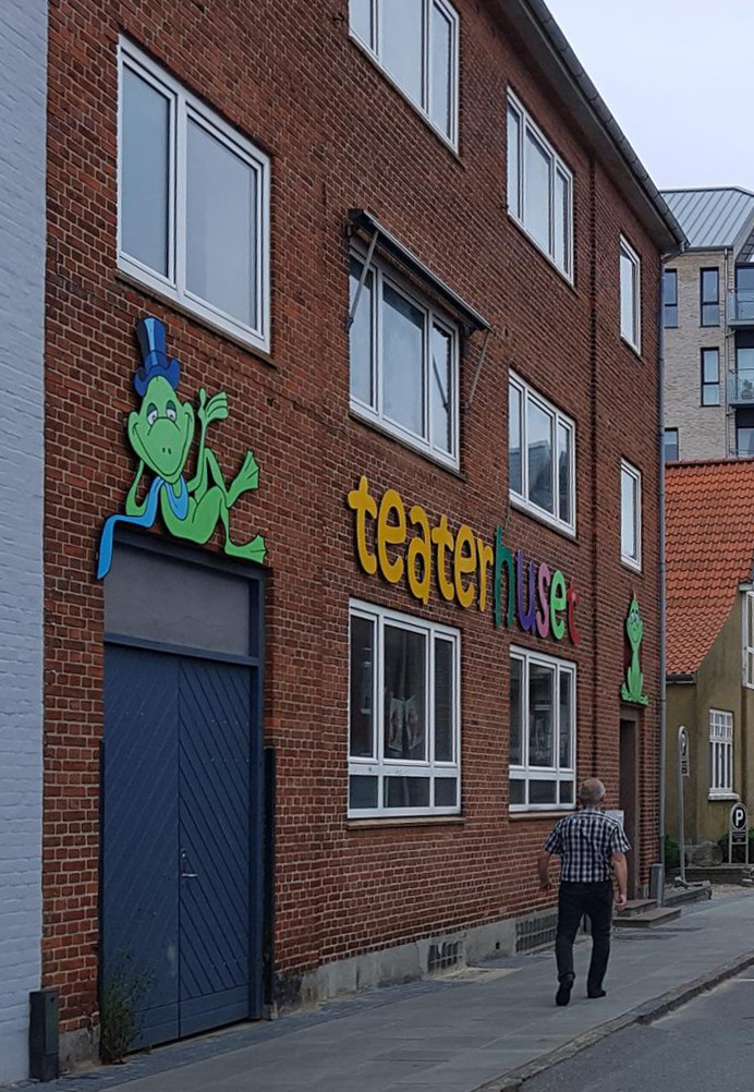 Street address: Borgergade 25 6700 Esbjerg Recorded and uploaded to Mapillary by wiki user "Kirkgaard" (mapillary user "mikini"). Image key: sHg5Uu7kMj6yIHVYgTqOJA (